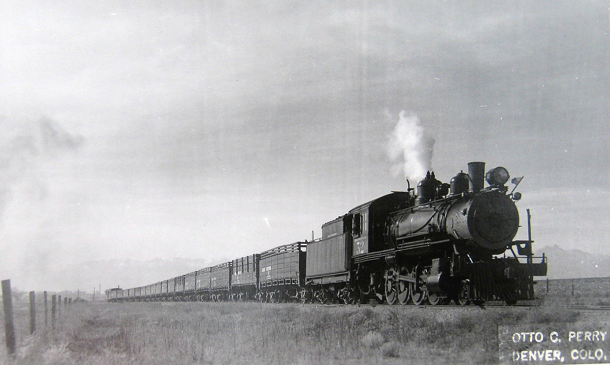 Postcard photo of Great Western locomotive #52 in an unnamed location. The photo was taken by noted railroad photographer Otto Perry. Perry earned his living as a mailman in Denver; photographing trains was a hobby he pursued for many years. Perry was also known to travel outside of the Denver area to photograph trains. Like many other railfans who take photos, Perry had prints made up as postcards and used a ink stamp to identify their work as these photos were shared with others who also had a hobby of photographing trains. Perry died in 1970, leaving his collection of train photos and negatives to the Denver Public Library.